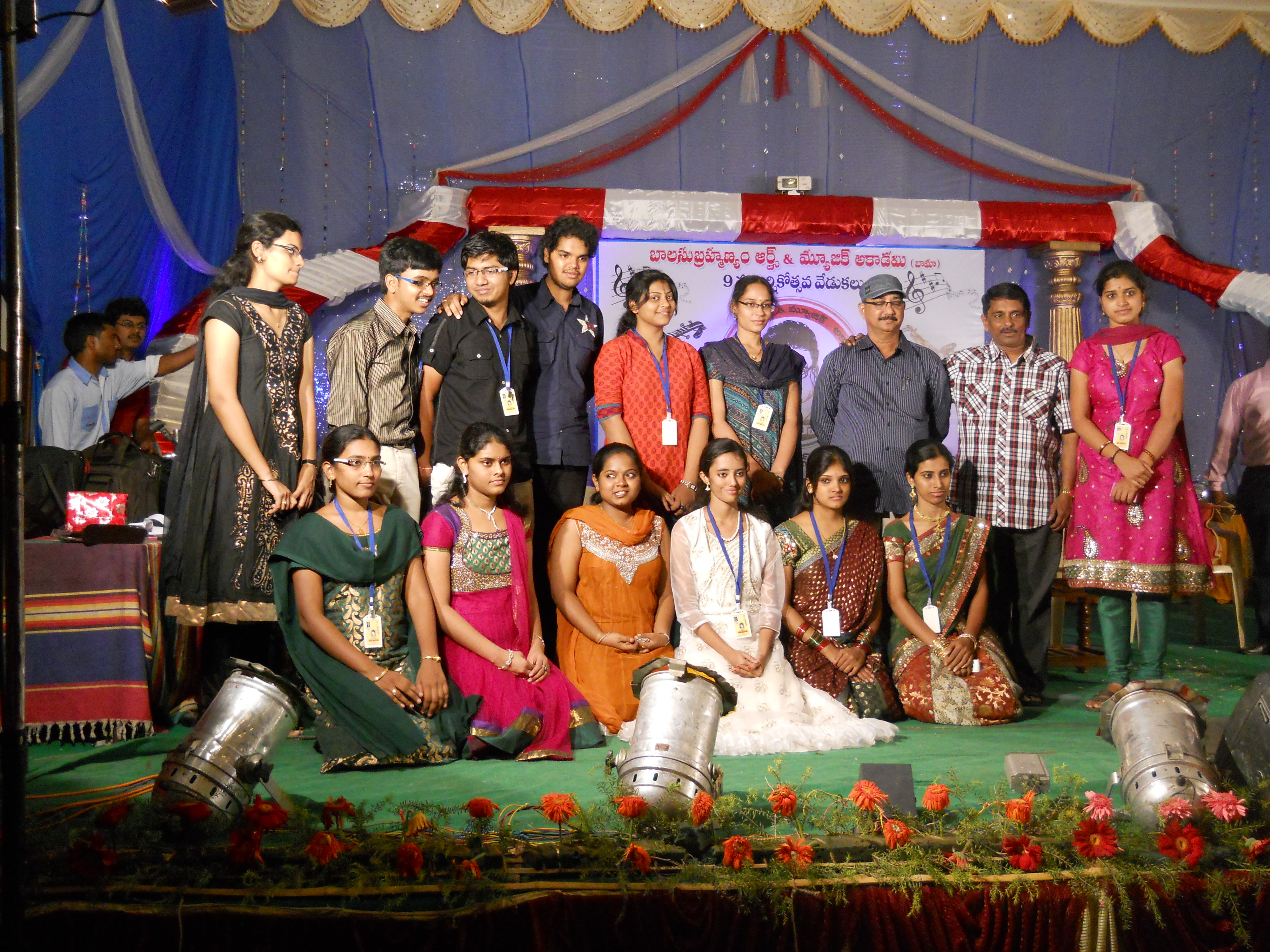 Singers group and Paduthathiyaga Director N.B.Sastri, Cine Music Director Madhavapeddi Suresh at Balasubramanyam Arts and Music Acadamy Competations in Kavali, Nellore (Dt), A.P.